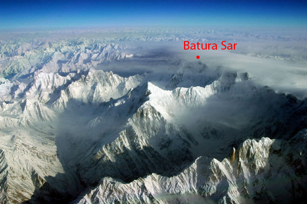 Aerial photo of part of the Batura Muztagh in Pakistan, from the southeast. Sangemarmar in center of photo. Muchuhar Glacier on left, leading up to Hacindar Chhish. Batura Wall and Pasu Sar in clouds in center right. The notable rock spire at the bottom right is Bublimotin.